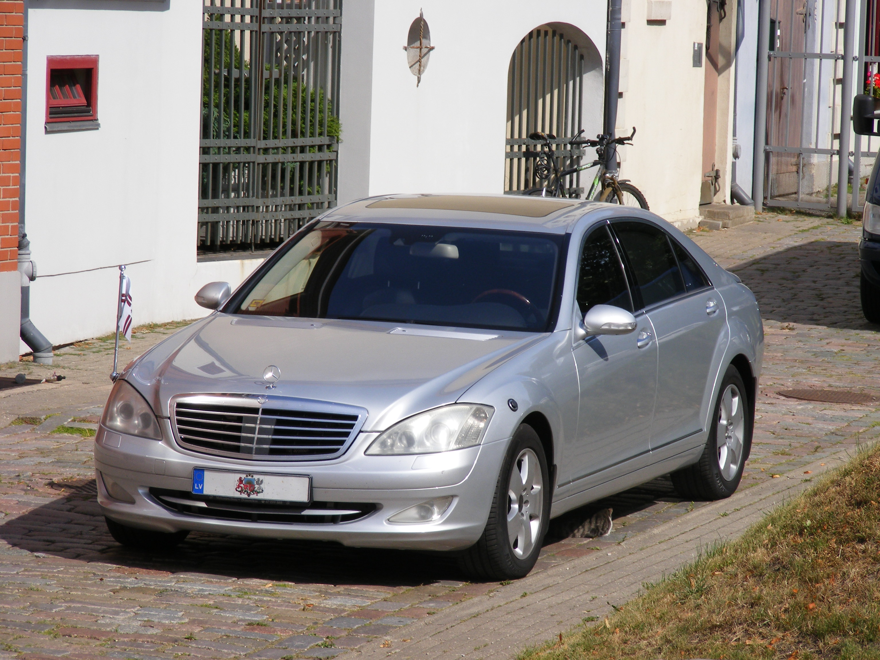 They're really big into personalised vehicle registration plates in Latvia, but this one doesn't have one.